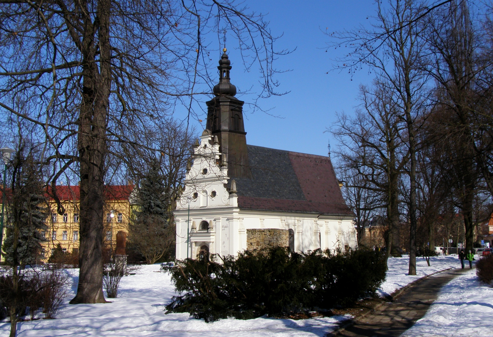 Jihlava. Church of the Holy Spirit